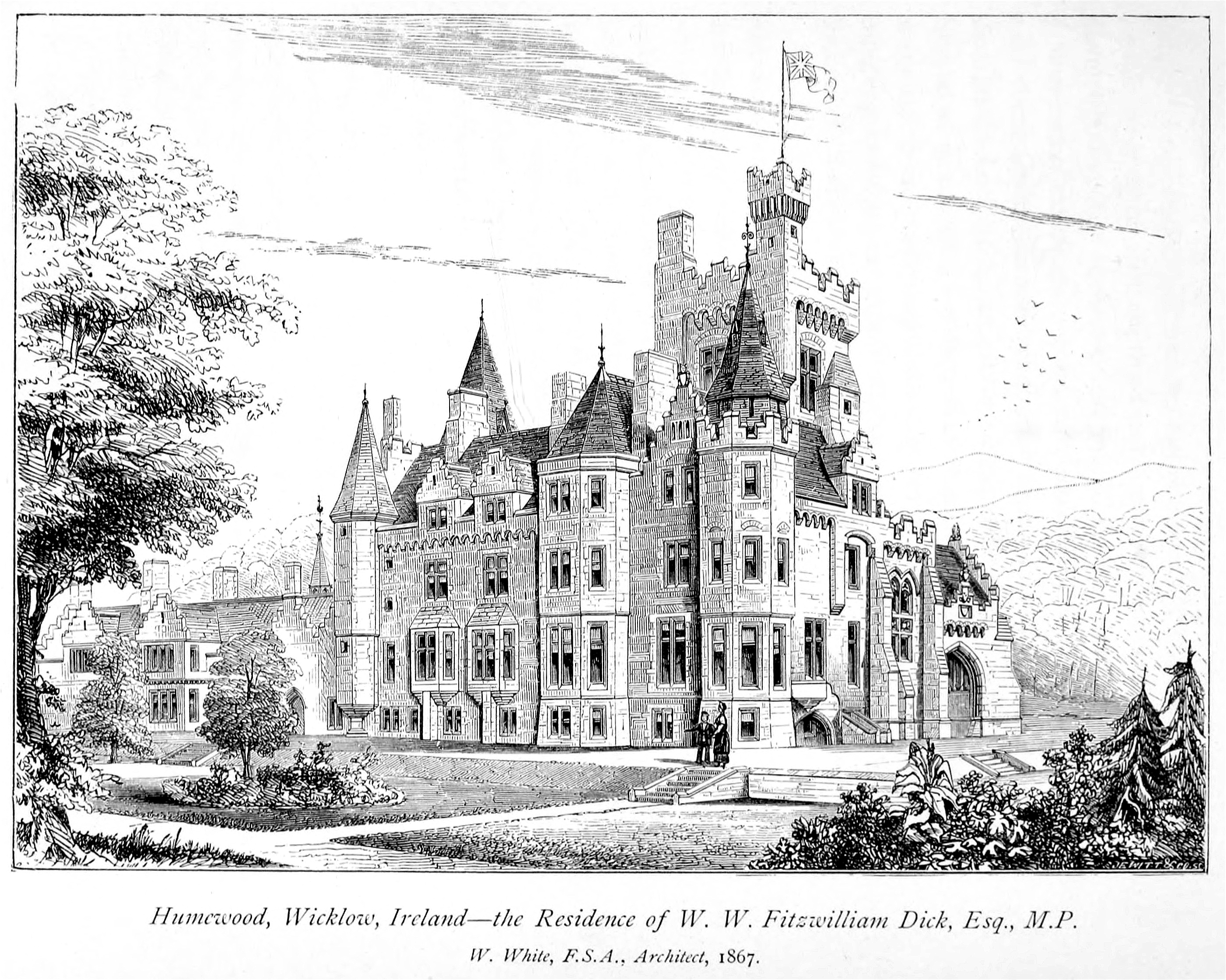 Illustration of Humewood Castle, Kiltegan, County Wicklow, Ireland from A History of the Gothic Revival page 362 by Charles Eastlake, published by Longman, Green and Co, London